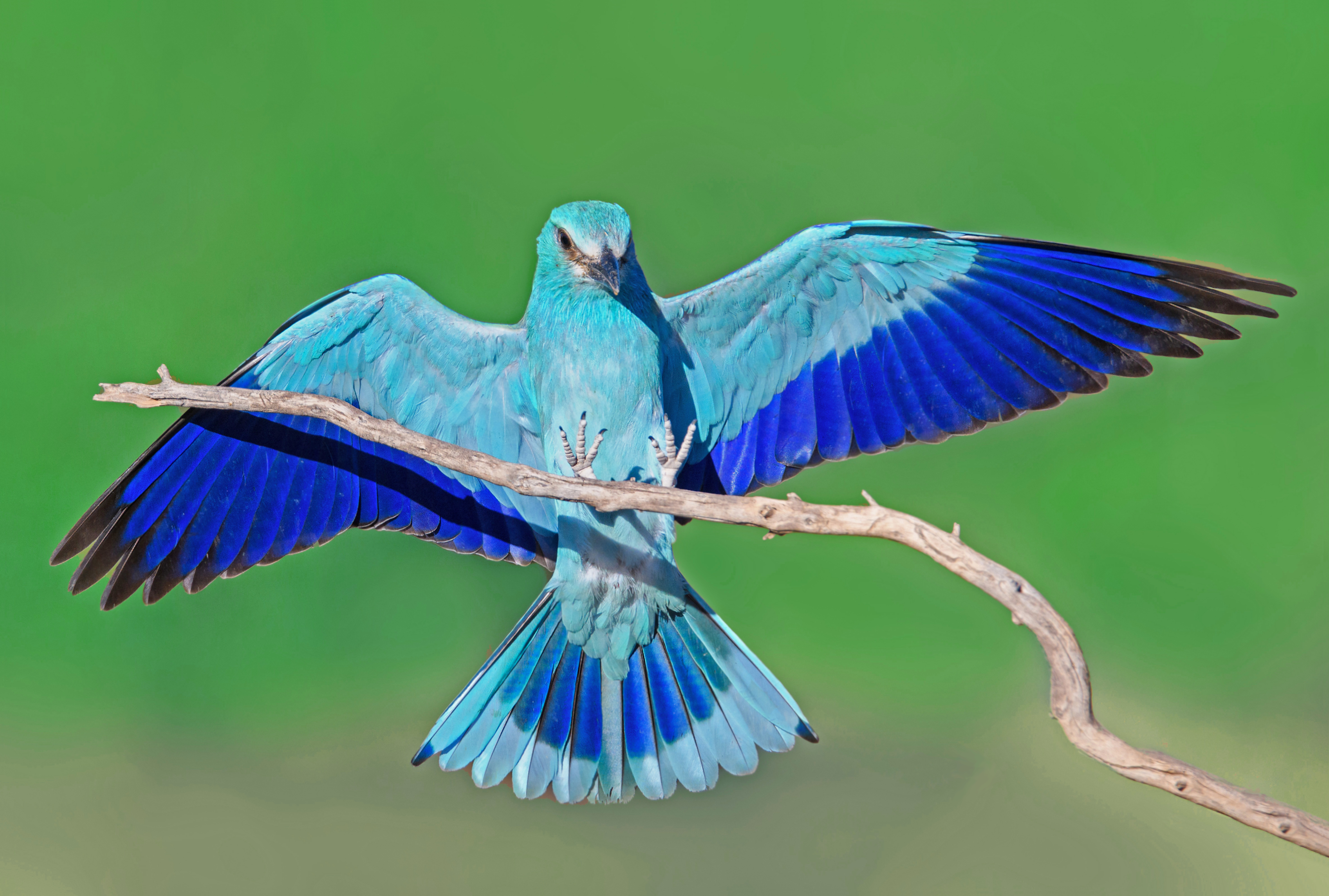 A roller in Shirahmad wildlife refuge of Sabzevar, Iran